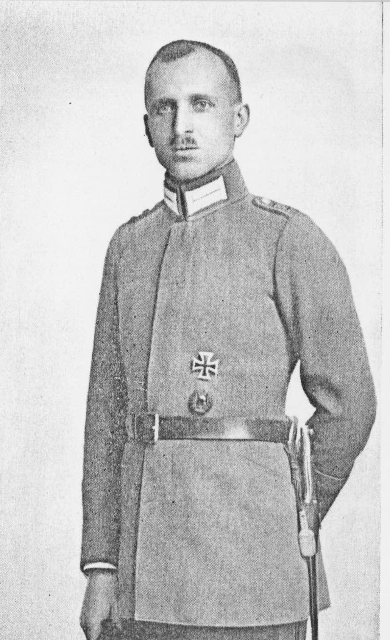 Hans Henning v. Pentz 1890-1982